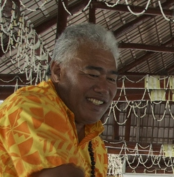 Foua Toloa, the Ulu O Tokelau (cropped from original)